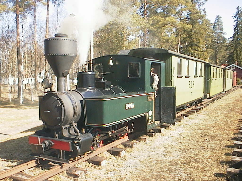 Emma steam locomotive at Kovjoki Museum Railway in Nykarleby, Finland